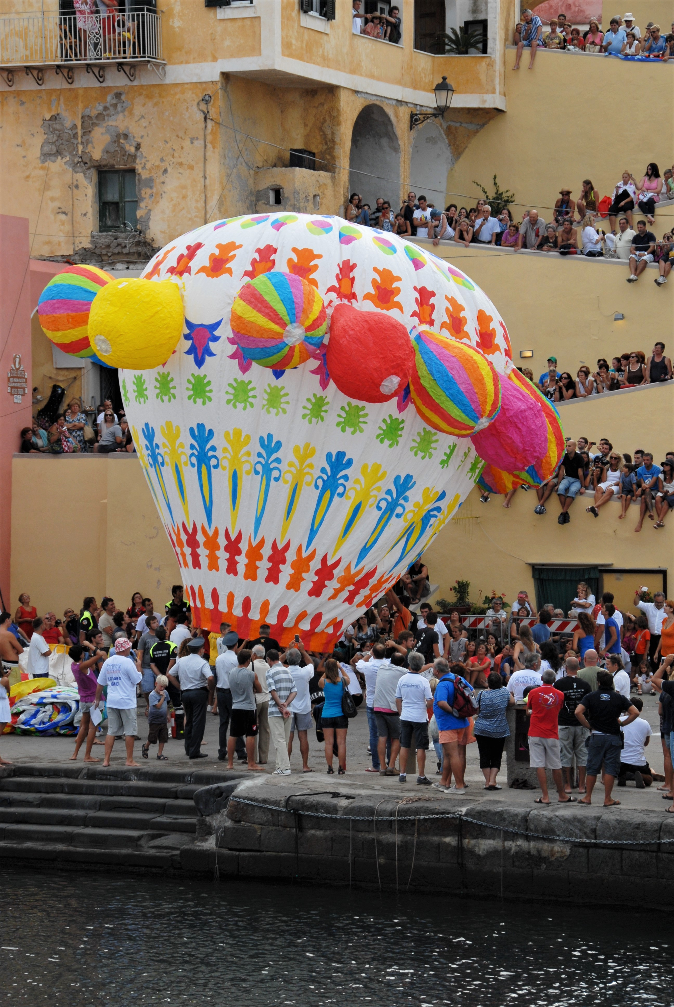 Launch of a hot air balloon during the balloon competition at The Games during the Santa Candida festival, held at the roman Port on the Island of Ventotene